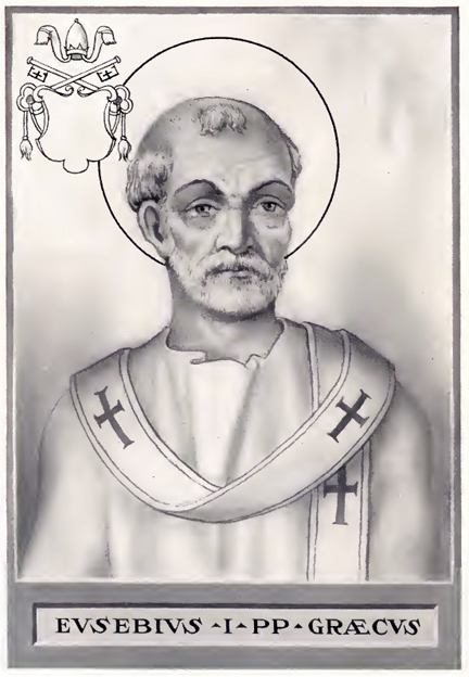 This illustration is from The Lives and Times of the Popes by Chevalier Artaud de Montor, New York: The Catholic Publication Society of America, 1911. It was originally published in 1842.